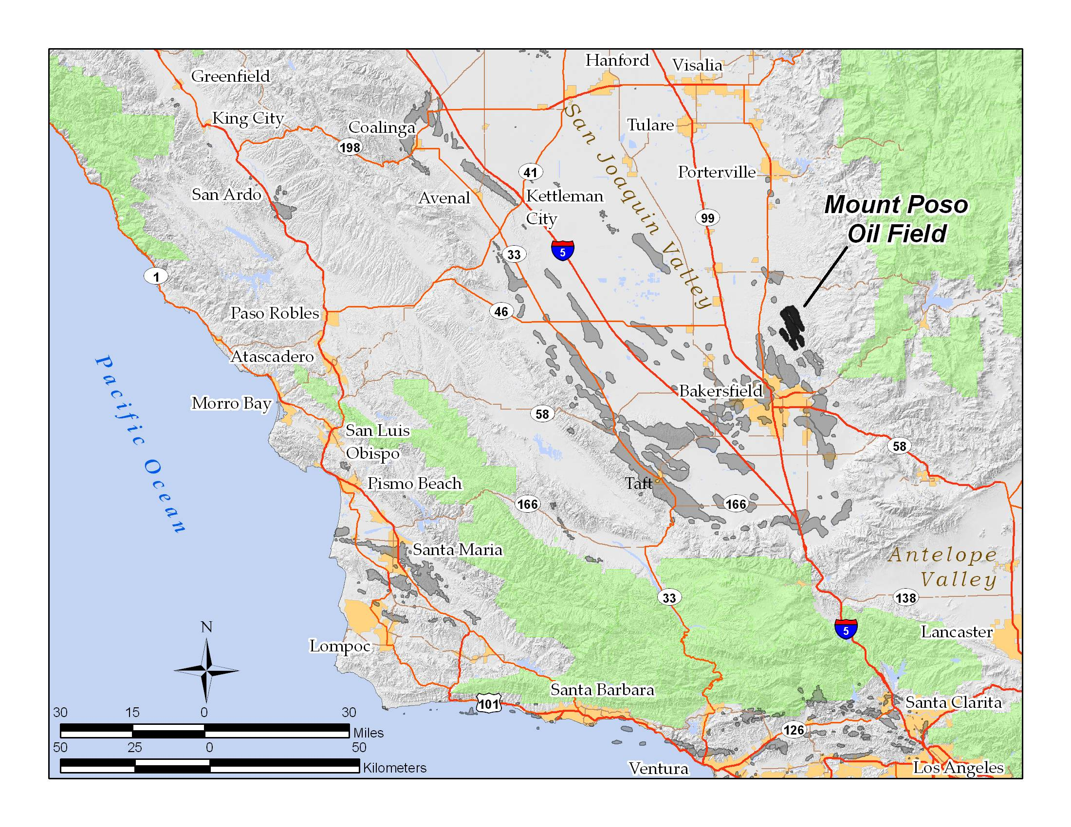 Map of Mount Poso Oil Field, by User:Antandrus, using ArcGIS 9.2. All data shown on this map is in the public domain (US Census, USGS, etc.)